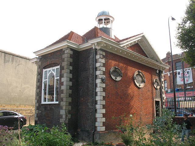 Boone's Chapel: rear The windows of the rear and side of the grade 1 listed chapel seen here are Victorian but the building itself dates from 1682. See also 1496663.